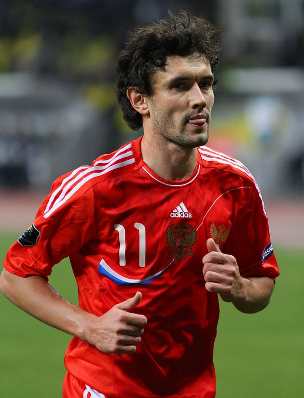 Russian football player Yuri Zhirkov during match against Andorra